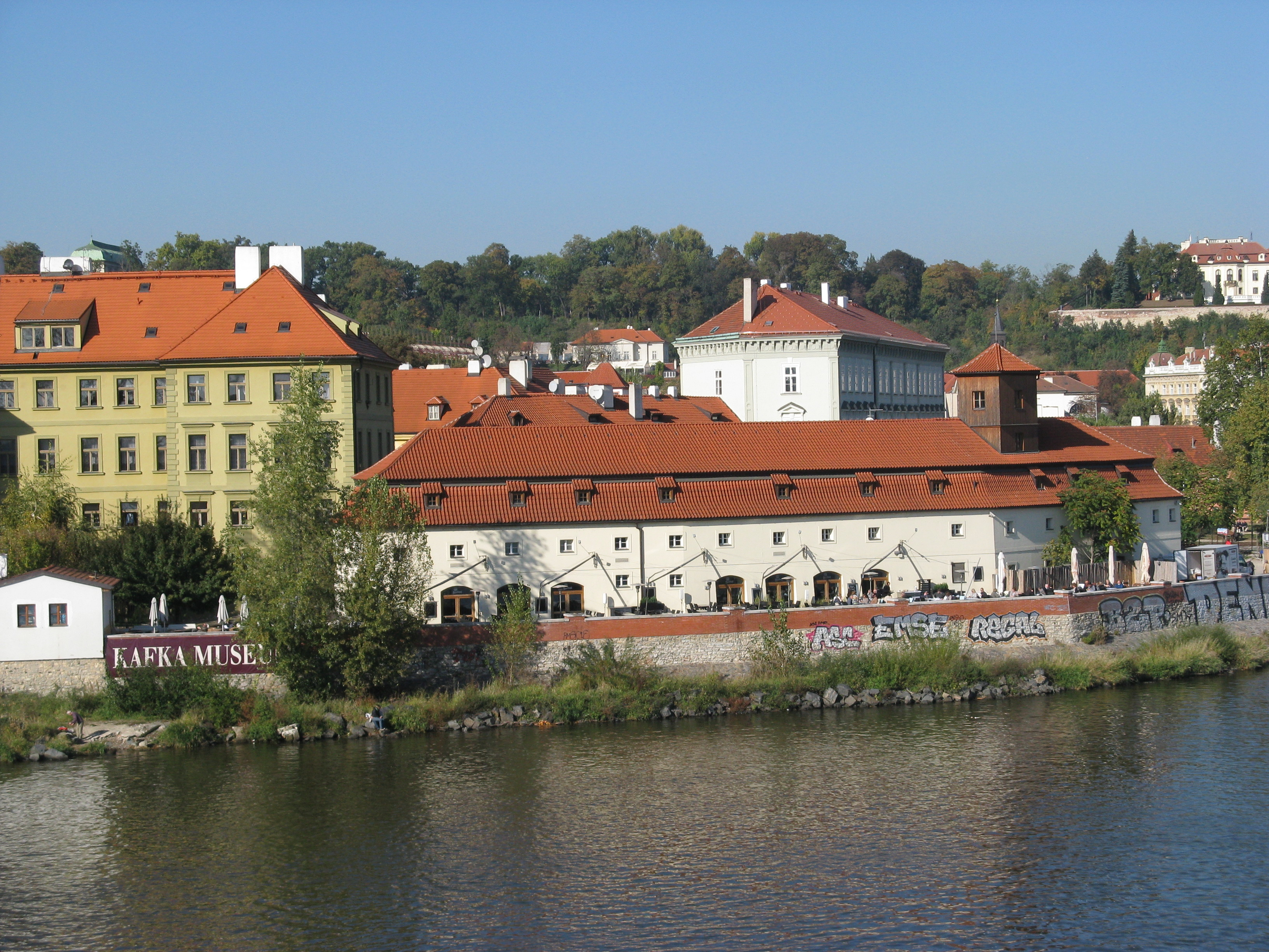 Franz Kafka Museum in Prague.